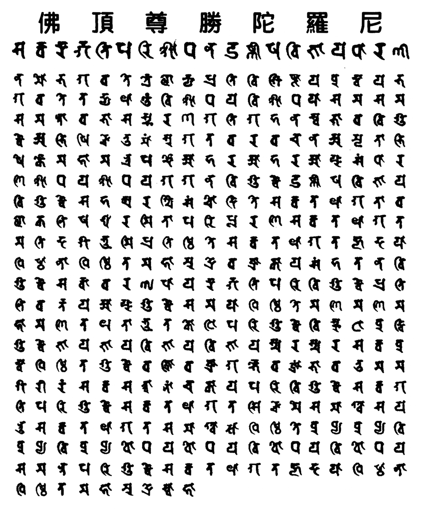 Usnisa Vijaya Dharani Mantra in Siddham Script